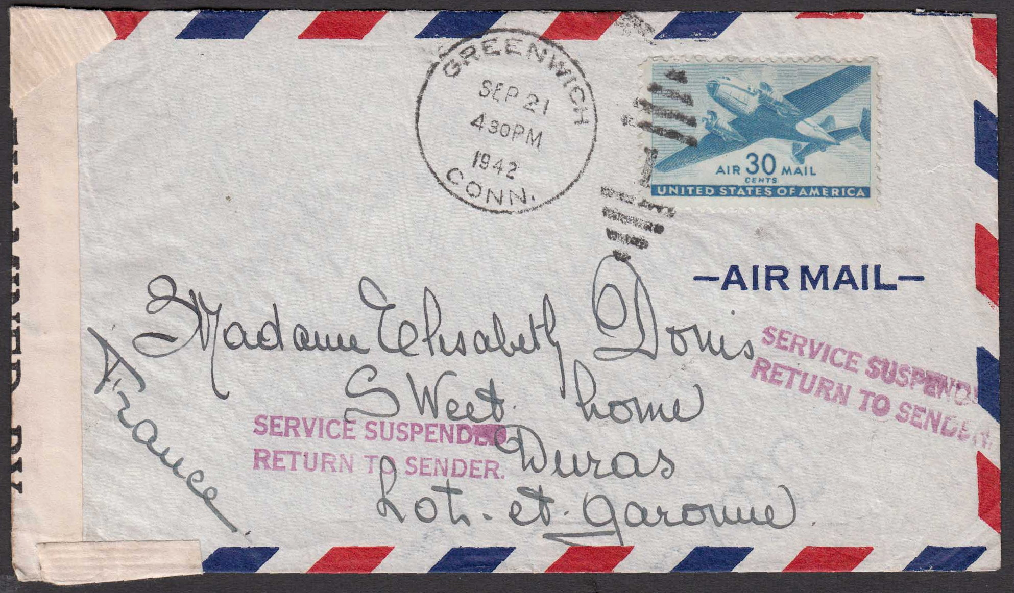 Returned censored airmail cover from Greenwich, Connecticut, United States to France franked with a 30 cent airmail stamp date stamped 24 September 1942 and with the instructional marking "SERVICE SUSPENDED / RETURN TO SENDER" and a US censor label affixed - opened by "EXAMINED BY 6906" (mostly on the reverse).